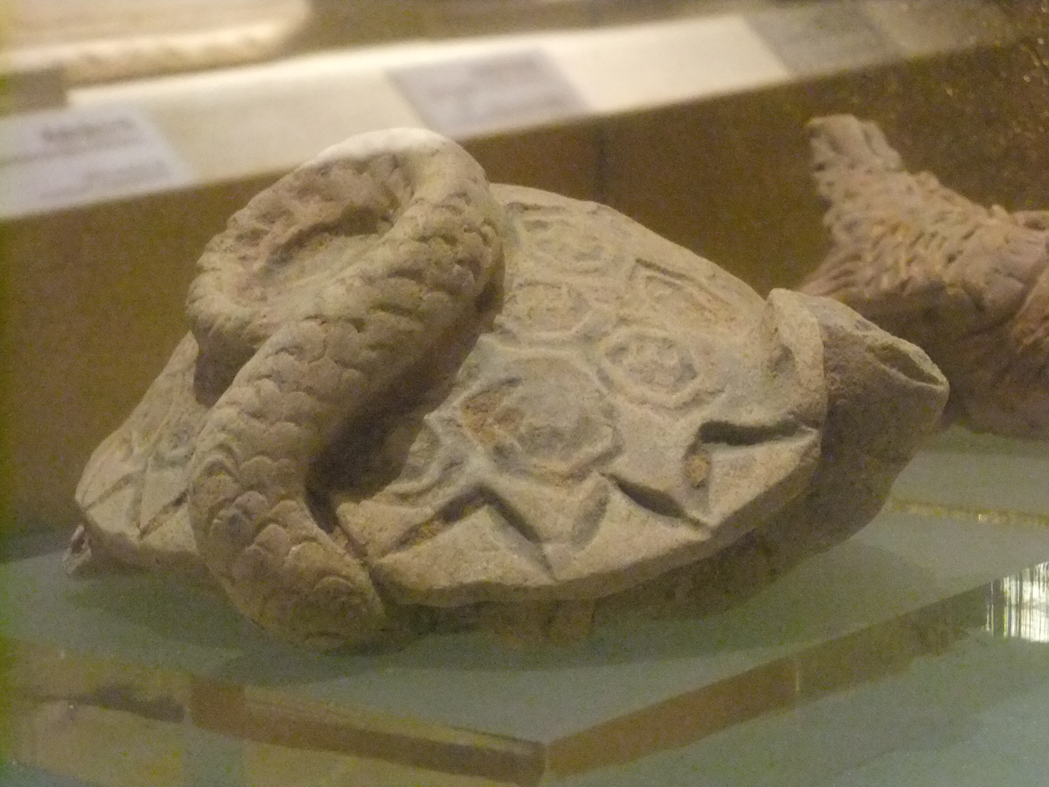 Figurines of three of the "Four Spirits" (Red Bird, Black Tortoise, and White Tiger) in Quanzhou Museum. According to the lable, they date from the Song Dynasty, and have been unearthed from the Dongyue Hill (东岳山) within Quanzhou City.